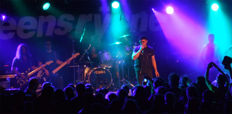 Queensÿche live at Metal Heart Festival 2007 in Notodden, Norway.